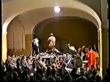 Photo taken from the first performance of the opera of Viktor Ullmann "The Emperor of Atlantis or The Disobedience of Death" 51 years after the General rehearsal in Terezín